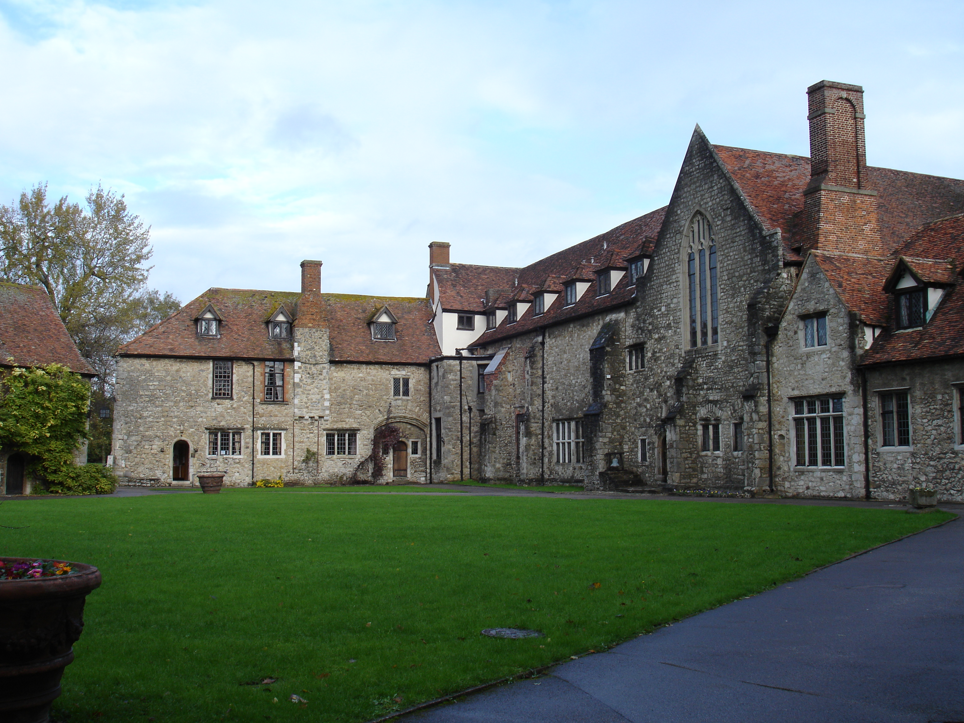 Photograph of Aylesford Priory, Kent, England